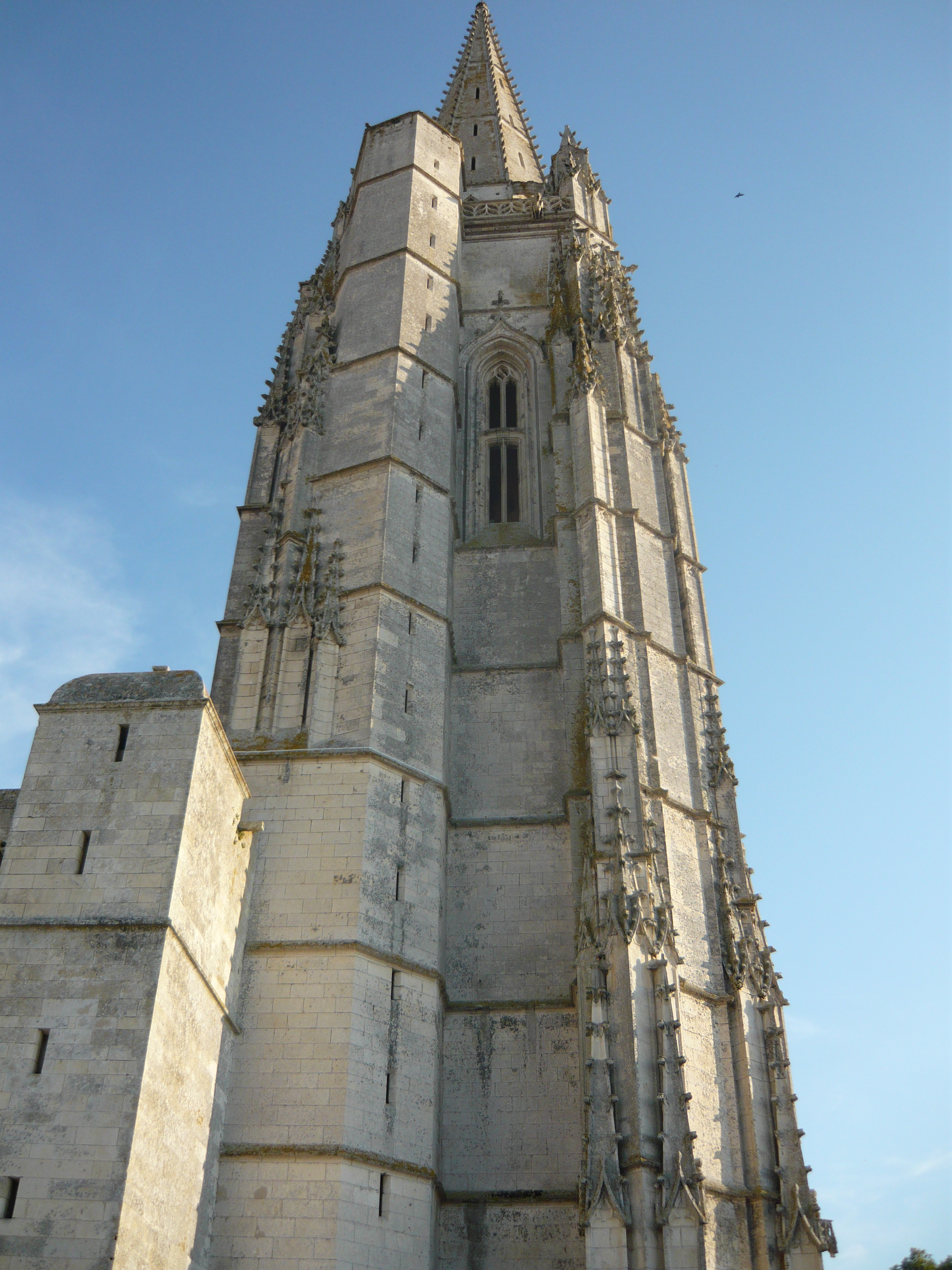 Vue sur le clocher-porche de l'église Saint-Pierre-de-Sales de Marennes, côté nord.